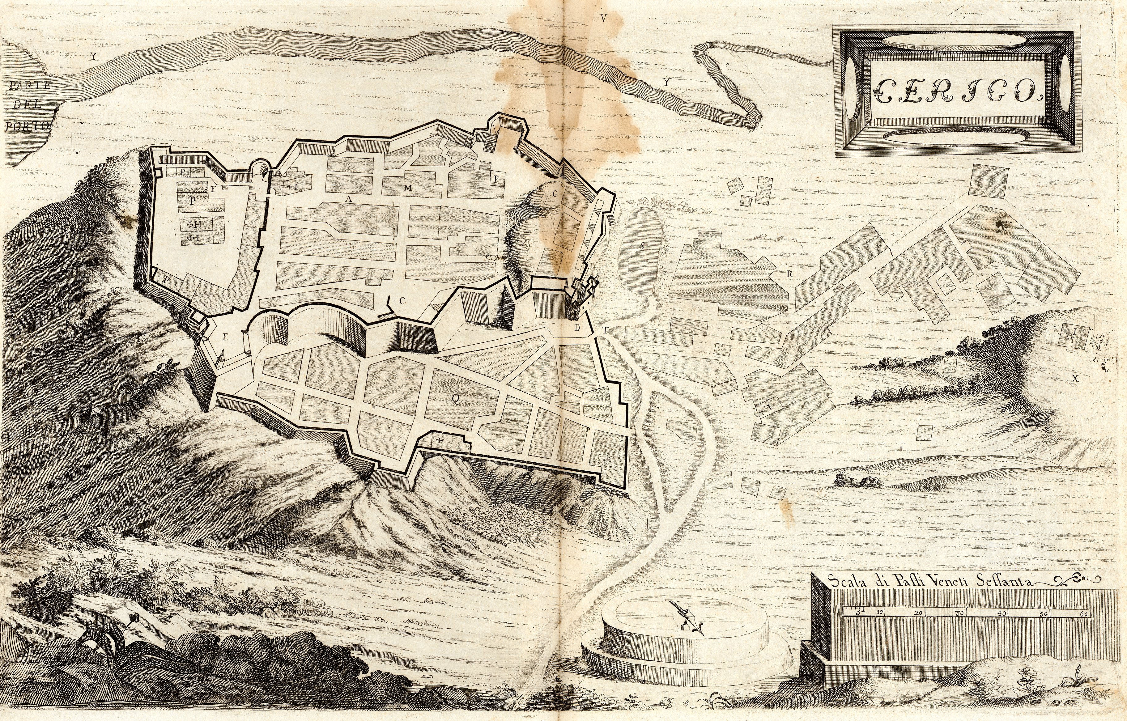 The castle of Cirigo. Copper engraving by Vincenzo Maria Coronelli, 1687. Nikos D. Karabelas map collection, Actia Nicopolis Foundation, Preveza, Greece.